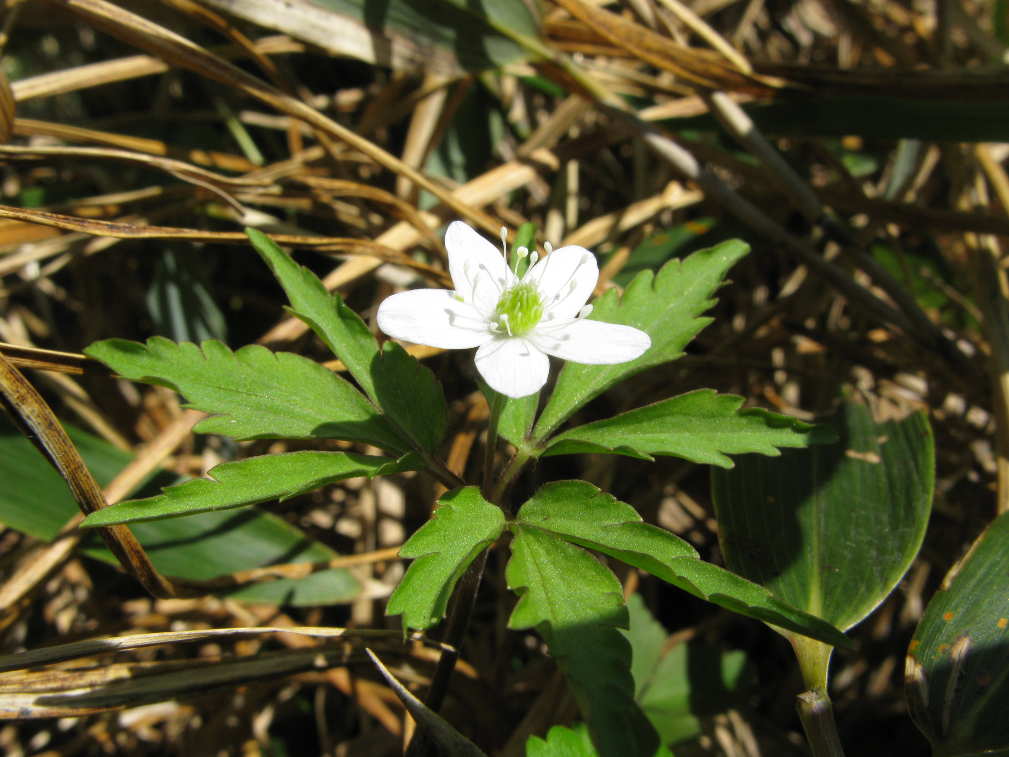 Anemone debilis, Aizu area, Fukushima pref., Japan